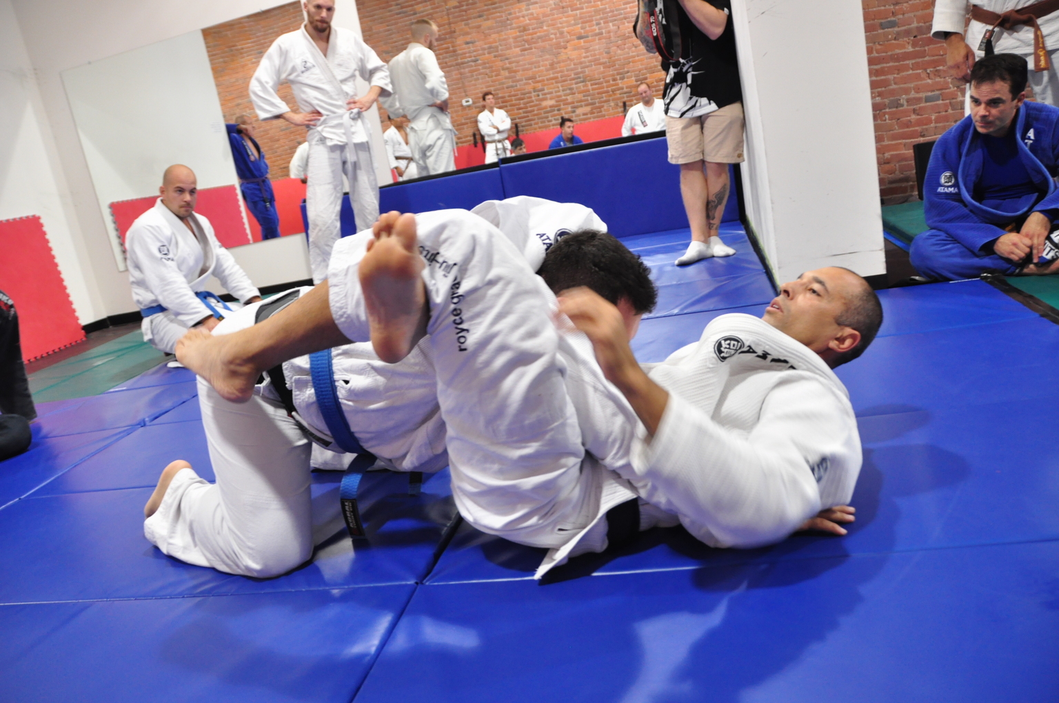 Royce Gracie giving a Gracie Jiu-Jitsu seminar in 2011.